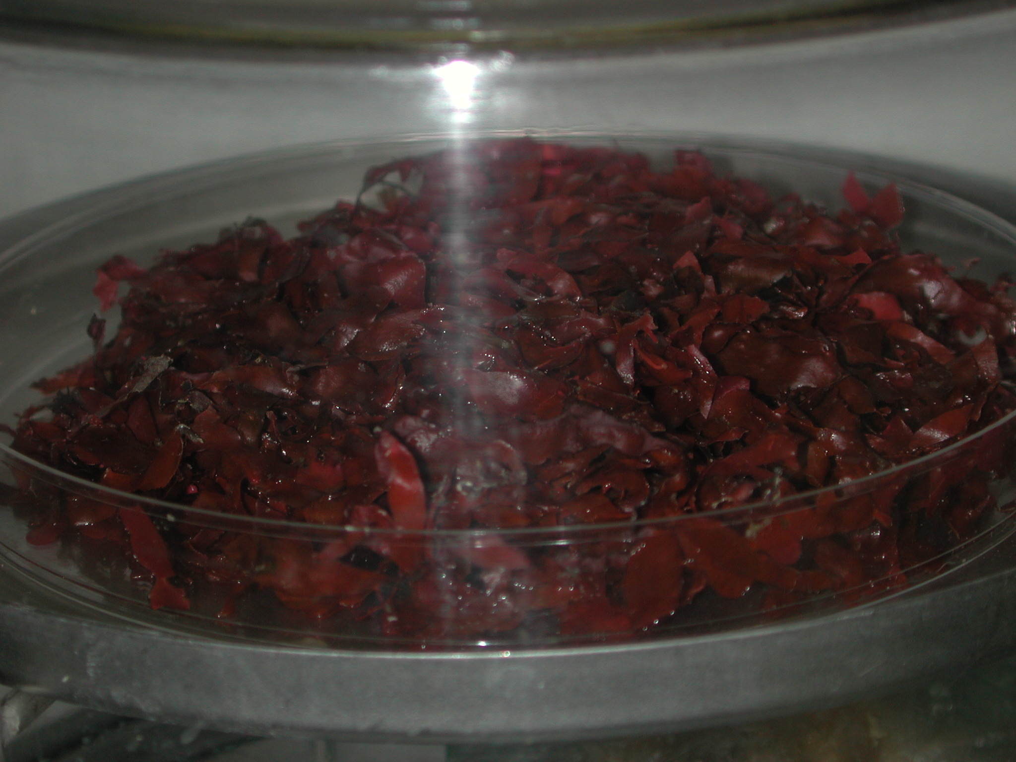 Sample of Phyllophora antarctica (red alga) in a freeze-drier